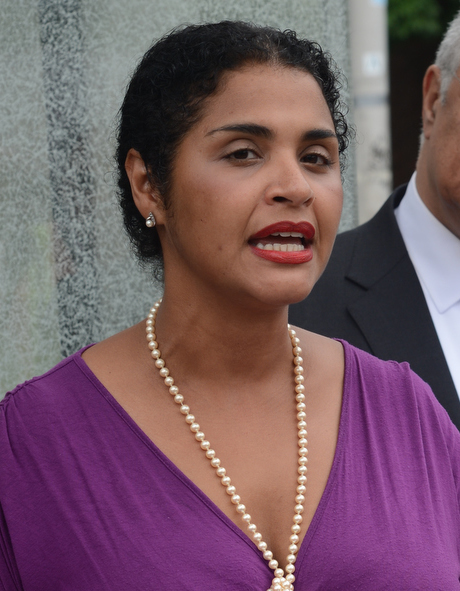 A ribbon-cutting ceremony was held Fri., June 13, 2014 at the Utica Av. Station on the A/C lines to officially open three elevators that make the station more accessible. Diana Reyna. Photo: Marc A. Hermann / MTA New York City Transit